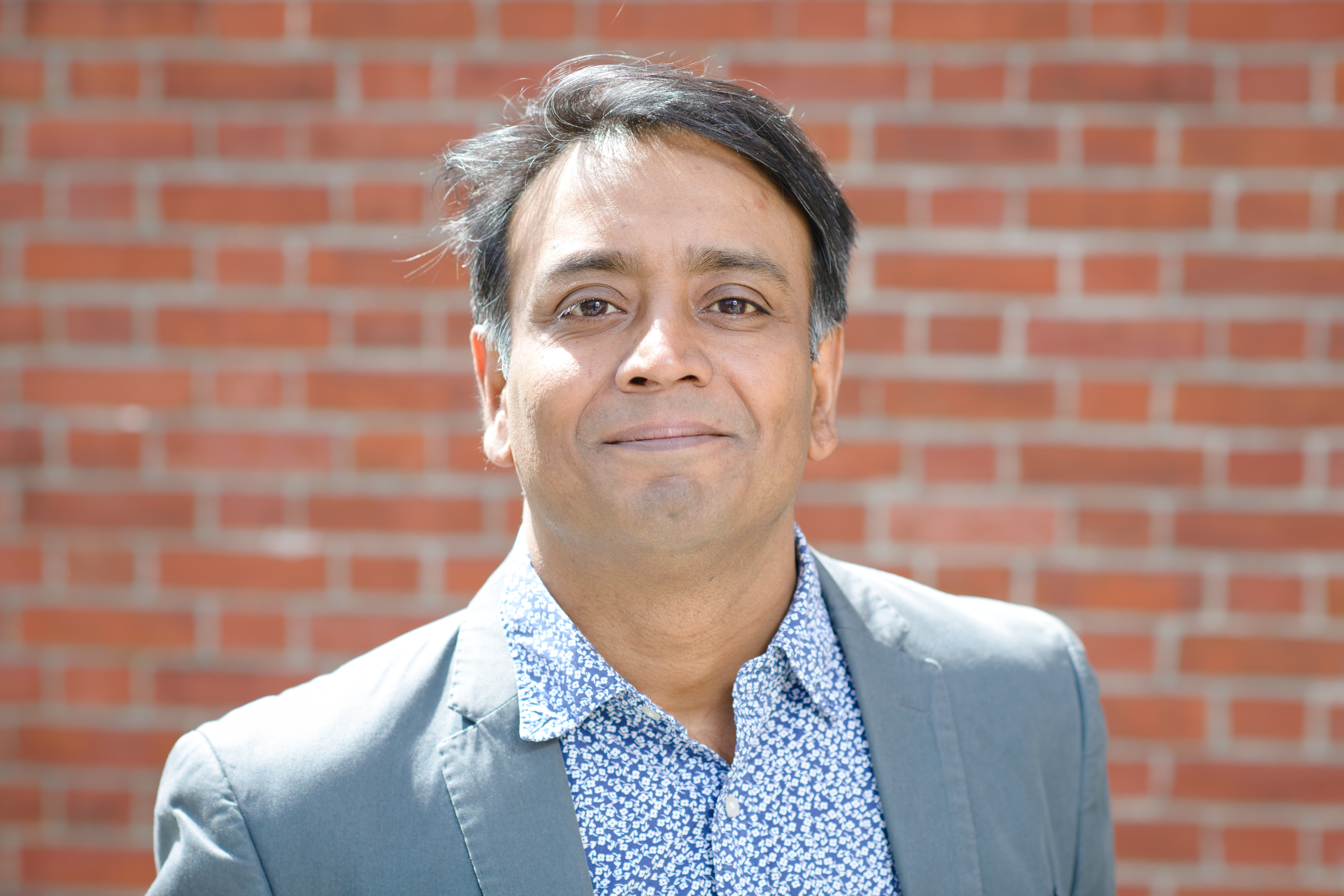 Photo of the novelist Zia Haider Rahman taken at Harvard in Cambridge, Massachusetts in 2019